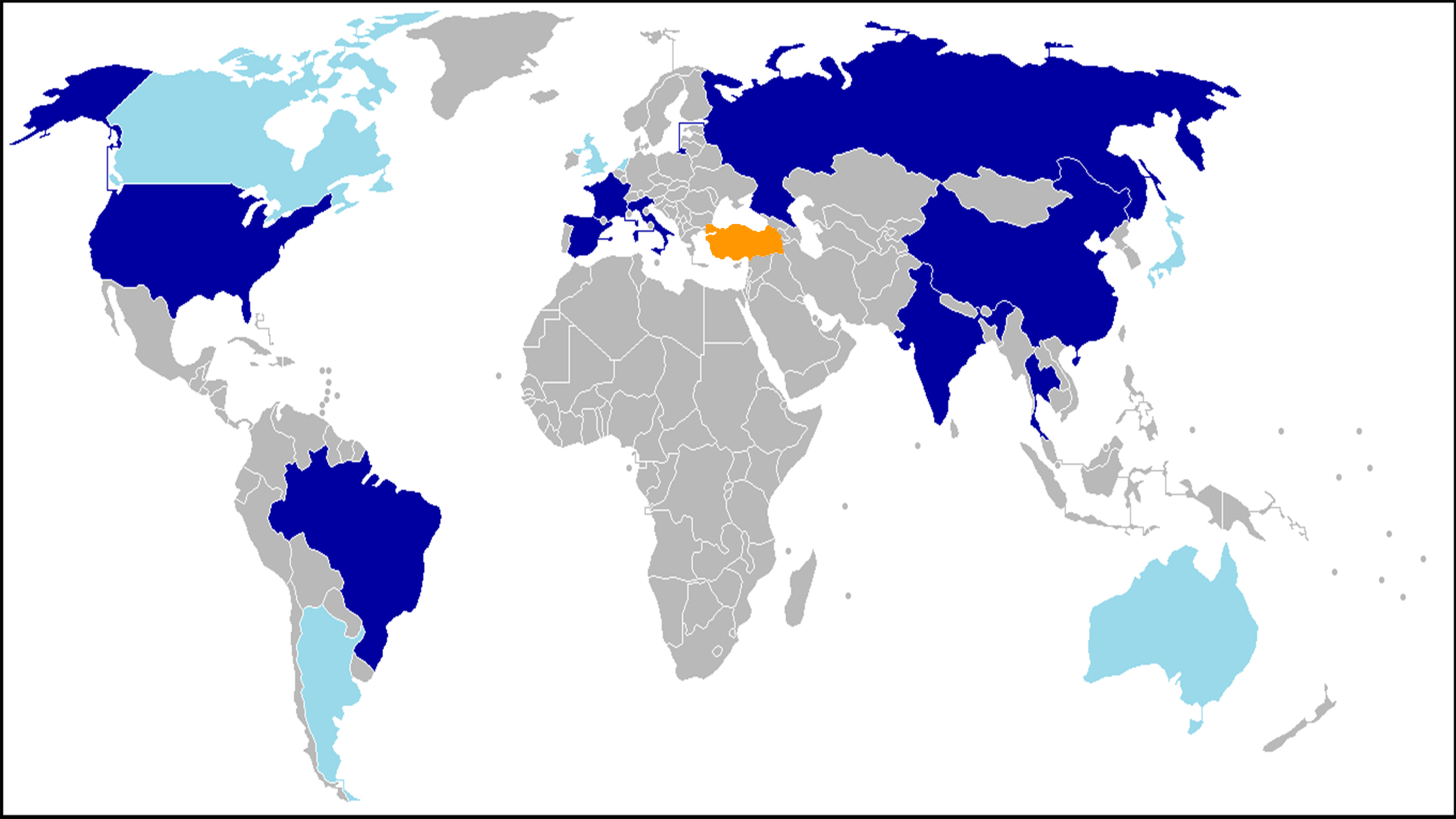 Countries currently operating carriers in blue; historic operators of carriers in light blue and constructing first carriers in Orange.